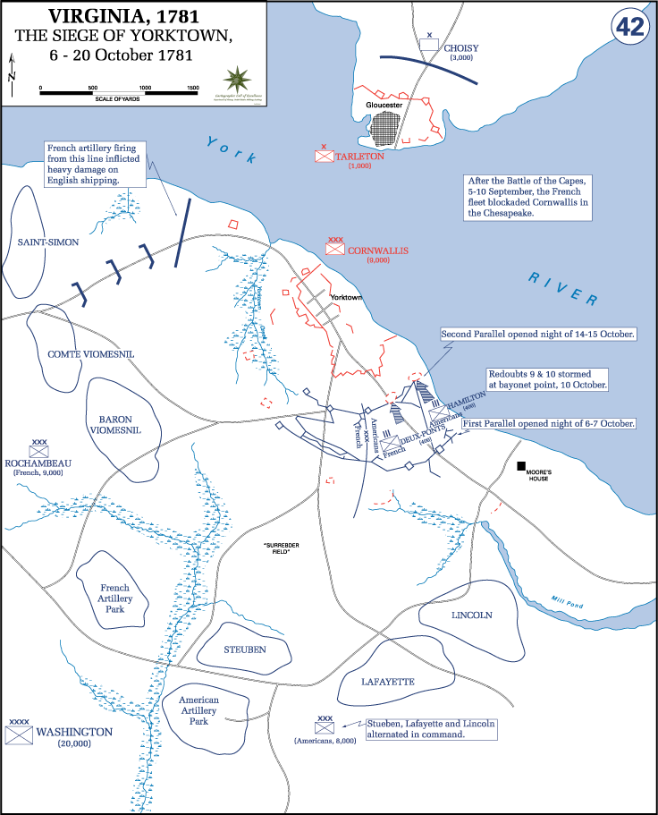 Siege of Yorktown Map October 6-20, 1781: This map shows the disposition of the allied American and French forces surrounding the British army trapped at Yorktown, VA. Note the positions of Redoubts 9 and 10 in advance of the main British fortifications near the York River, and how they were incorporated into the second siege parallel. Point blank cannon fire from batteries along this siege line forced Cornwallis to surrender. NOTE: Click on the map once to obtain a larger image. (Online Atlas Collection, History Department, U.S. Military Academy at West Point).